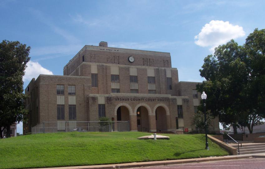 Upsher County Courthouse in Gilmer, Texas, United States. Listed on the National Register of Historic Places.